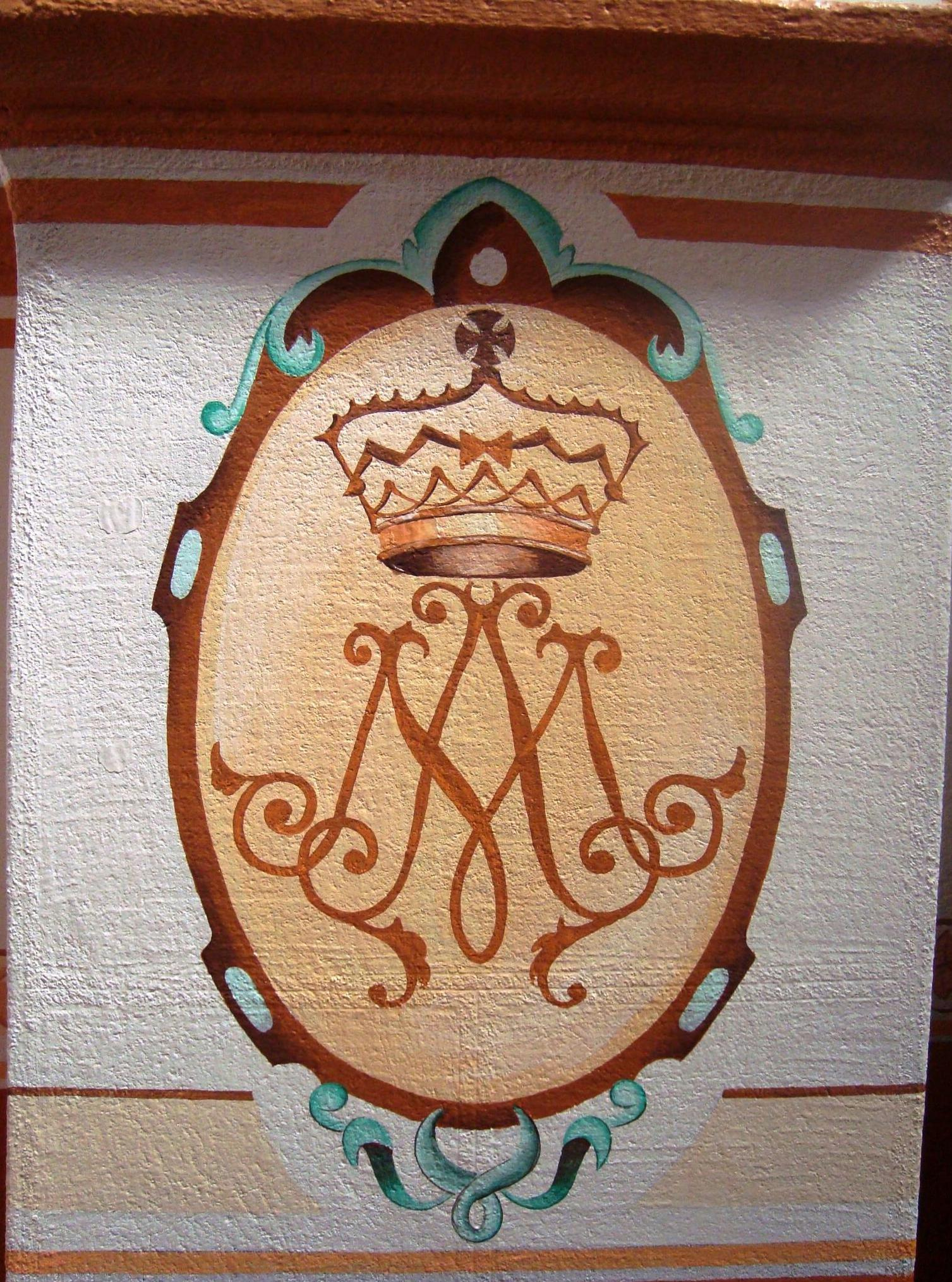 Our Lady of Mount Carmel Church, Gustavo A. Madero, Federal District, Mexico : Monogram of Virgin Mary.